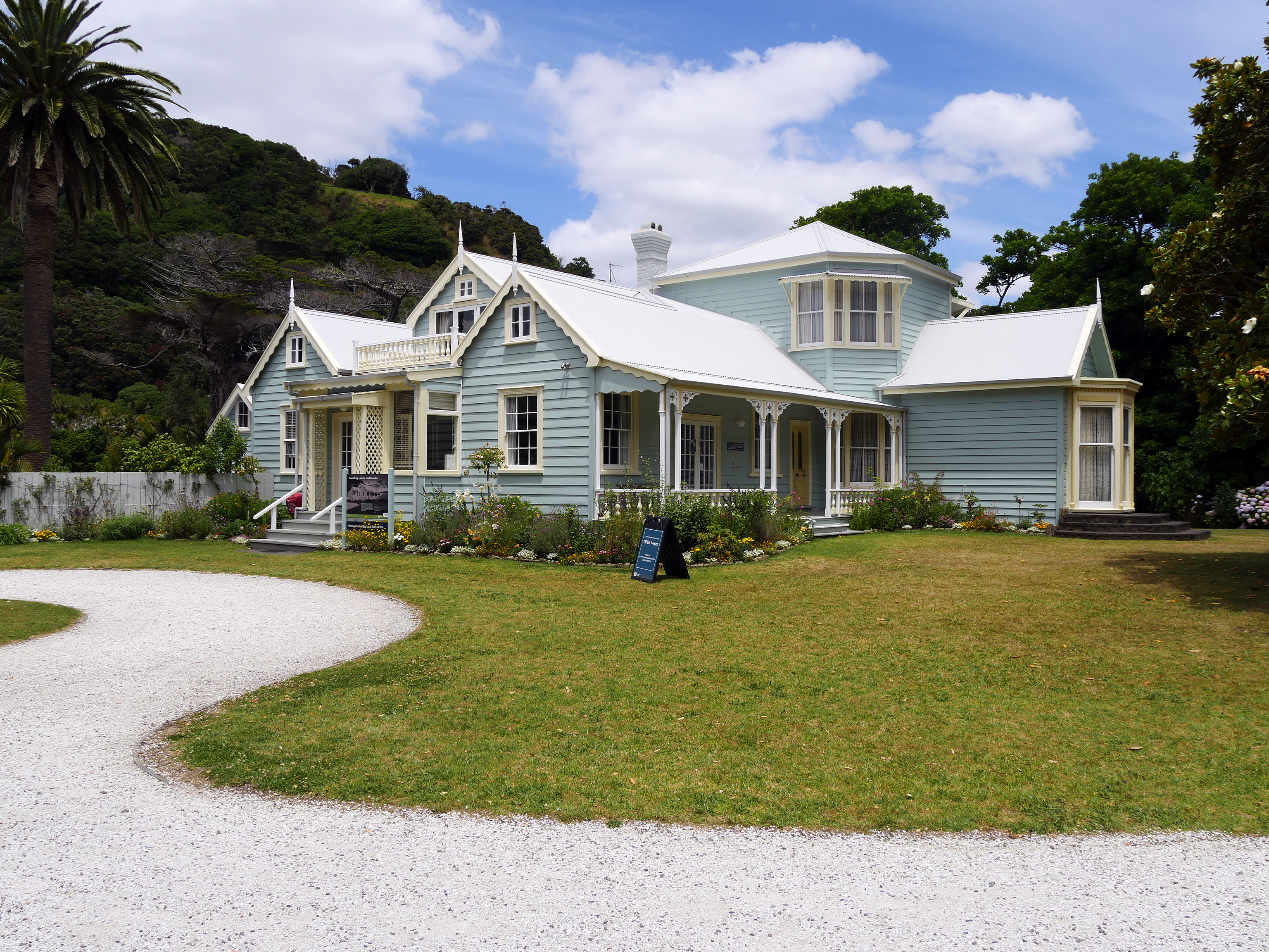 Couldrey House, Wenderholm Regional Park, Auckland Council, North Island, New Zealand (build 1857)